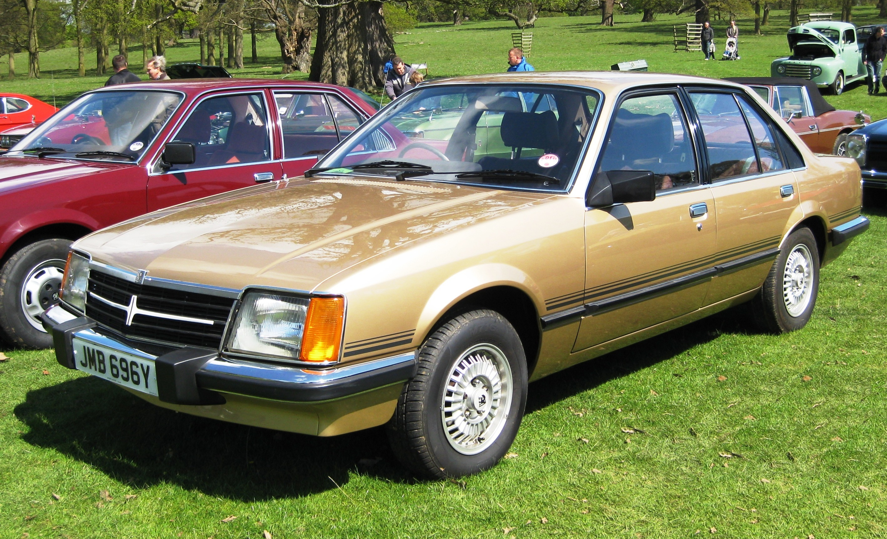 1982 Vauxhall Viceroy. In the UK, the Opel Commodore C was badged as a Vauxhall Viceroy and differentiated with a slightly modified grill.